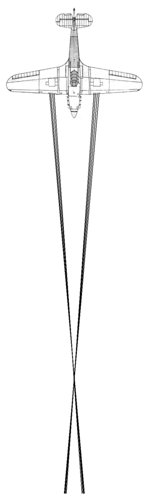 This is a derivative work based on the planform of a Hawker Hurricane fighter as seen at File:Hawker Hurricane 3D ExCC.gif. I added eight lines to represent gunfire converging at a point. The convergence is not to scale with regard to actual convergence schemes which were several hundreds of yards or meters to the convergence point.